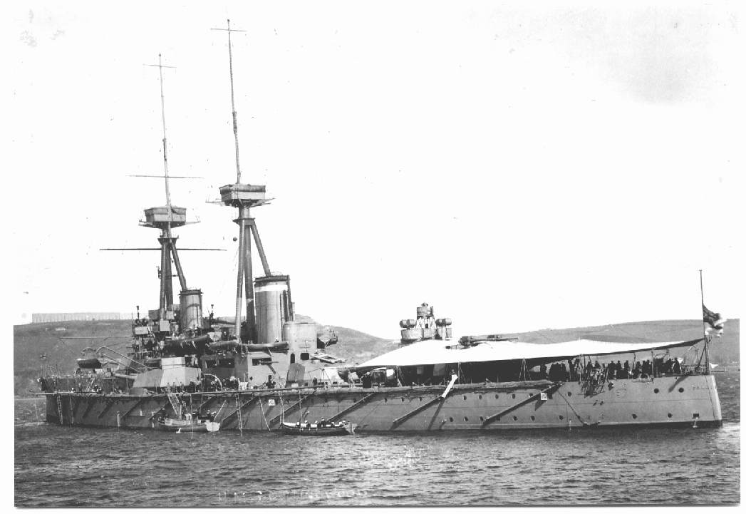 HMS Collingwood St. Vincent class battleship, somewhere between 1908 and 1923.